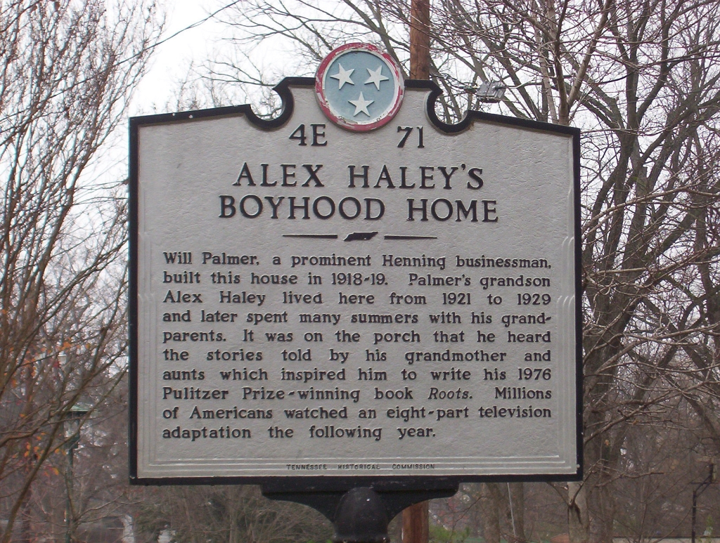 Alex Haley boyhood home historical marker in Henning, TN (Dec. 2007) Photo made by: Thomas R Machnitzki I made the photo myself, feel free to use it. The marker reads: 4E 71 Alex Haley's Boyhood Home Will Palmer, a prominent Henning businessman, built this house in 1918-19. Palmer's grandson Alex Haley lived here from 1921 to 1929 and later spent many summers with his grandparents. It was on the porch that he heard the stories told by his grandmother and aunts which inspired him to write his 1976 Pulitzer Prize-winning book Roots. Millions of Americans watched an eight-part television adaption the following year. Tennessee Historical Commission (Please do not remove the full text of the marker, this makes it easier for blind people to convert to Braille and read it. Converting the text from the image would be hard to do. Thank you!)